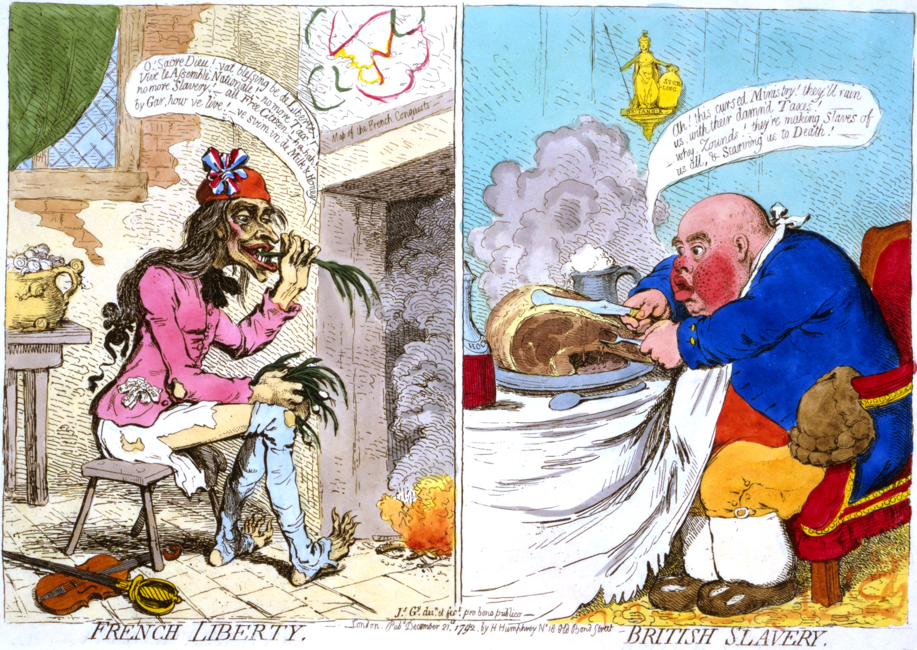 French Liberty. British Slavery. Js. Gy. desn. et fect. pro bono publico. SUMMARY: A design in two compartments. On the left is a lean and ragged sansculotte, seated on a stool before an open hearth ravenously eating raw onions, while he warms his bare toes at the fire. He is rejoicing. On the right is an immensely fat Englishman dining well, who is complaining about taxation and starvation. MEDIUM: 1 print : etching, color. CREATED/PUBLISHED: London : Pubd. by H. Humphrey, December 21st 1792.